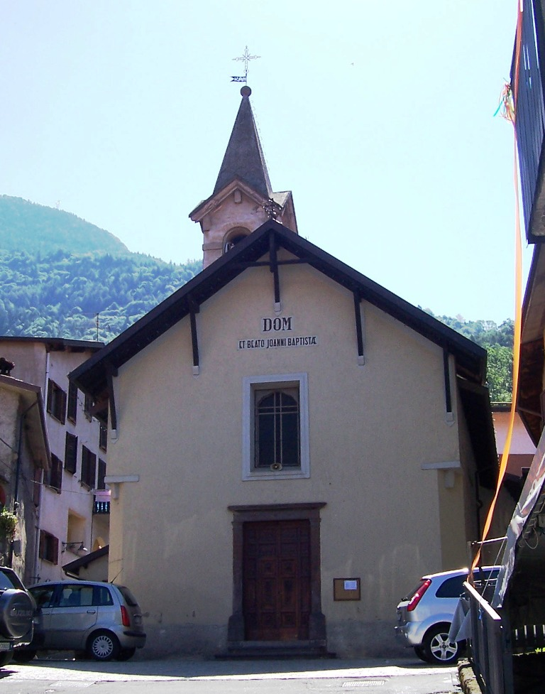 Church of St John the Baptist. Pescarzo, Breno, Val Camonica